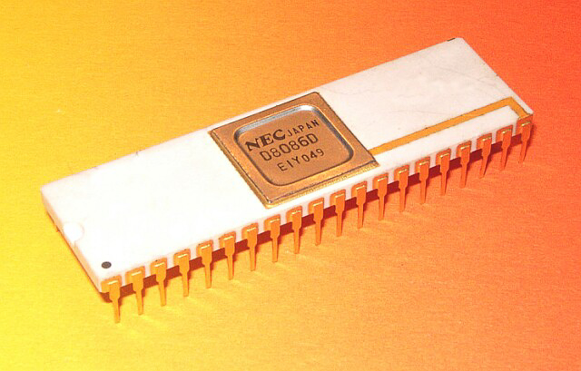 NEC D8086D